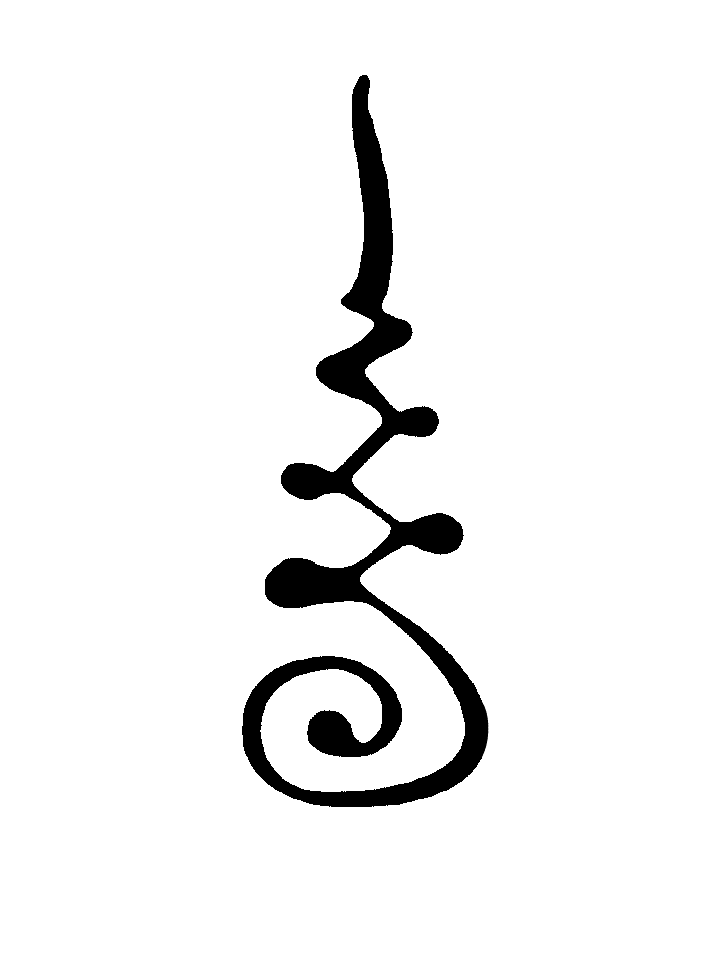 In Cambodia the symbol is known as Om or Unalom